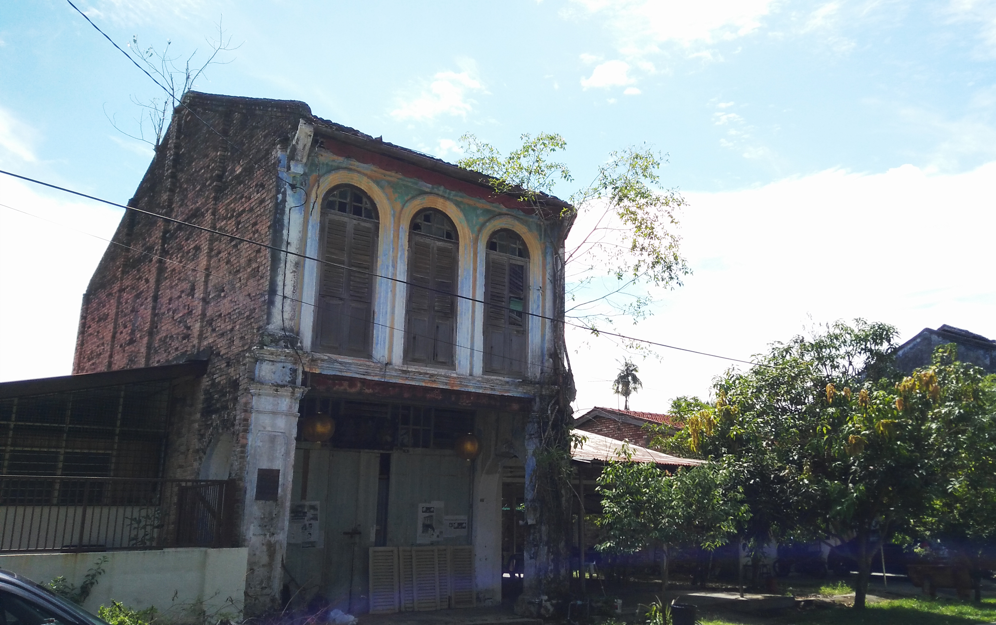 Syabil Kathigasu House